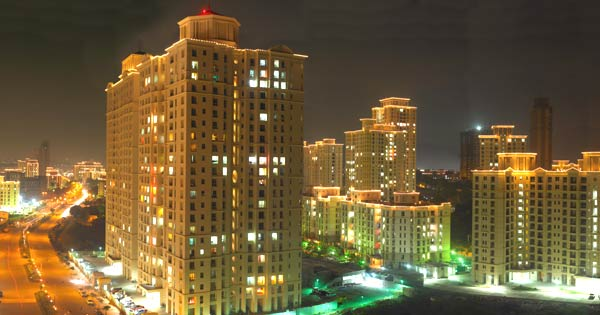 Night view